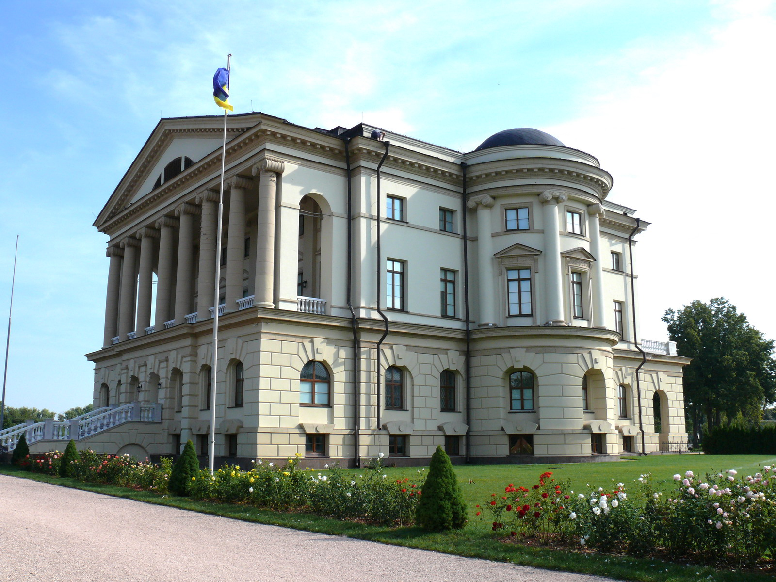 Palace of Rozumovskiy